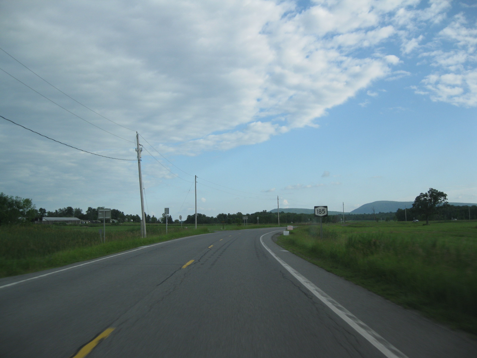 Route 185 heading towards the Adirondack Mountains in Crown Point, New York.